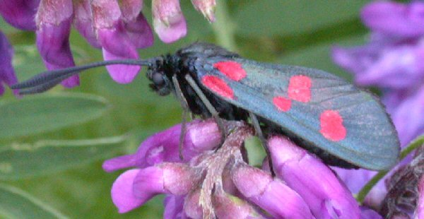 Zygaena trifolii (Esper, 1783), the five-spot burnet. (Lepidoptera: Zygaenidae) Photographed and uploaded by Keith Edkins © 2003. Cornwall, UK.